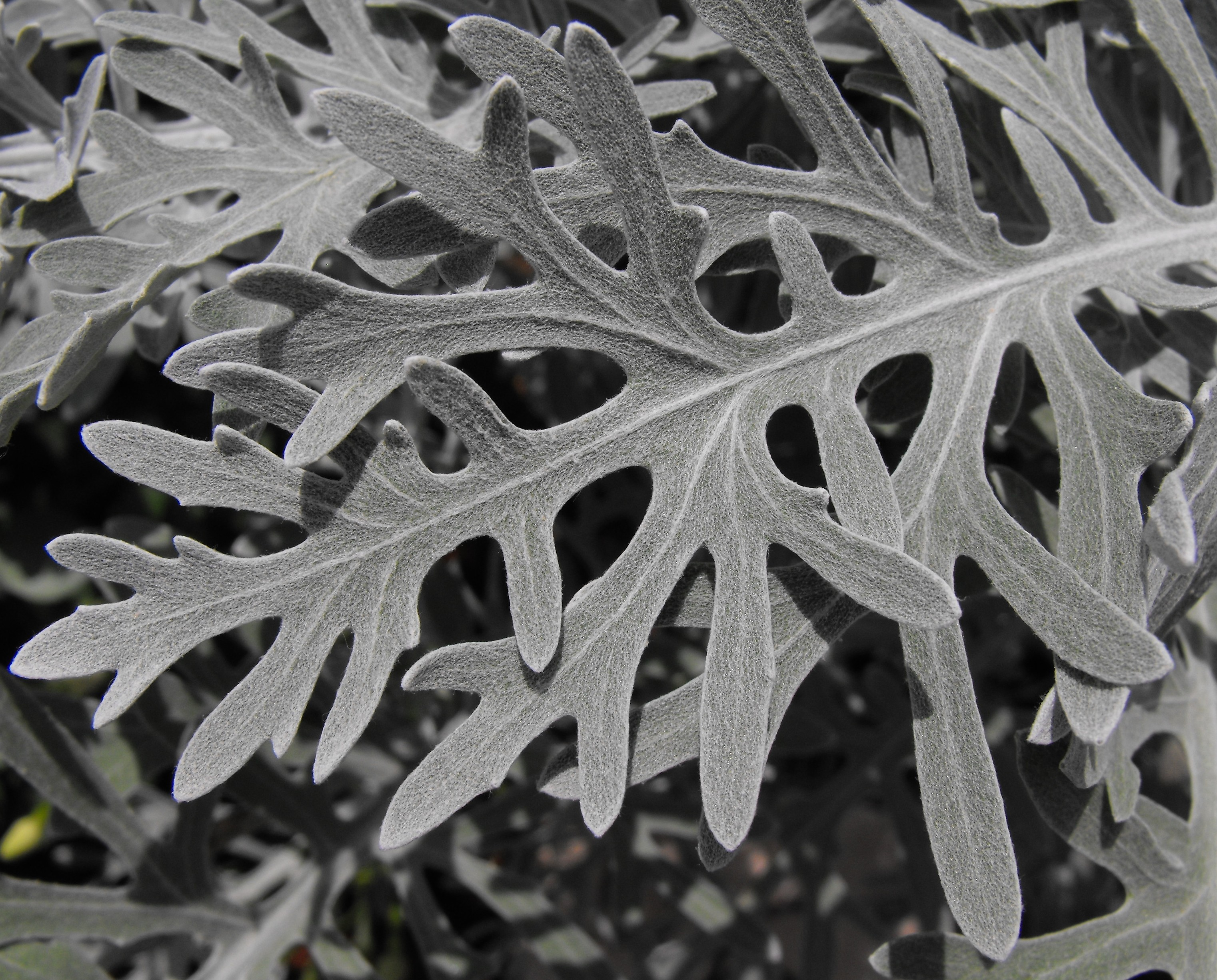 Centaurea gymnocarpa on display at the San Diego County Fair, California, USA. Identified by exhibitor's sign.